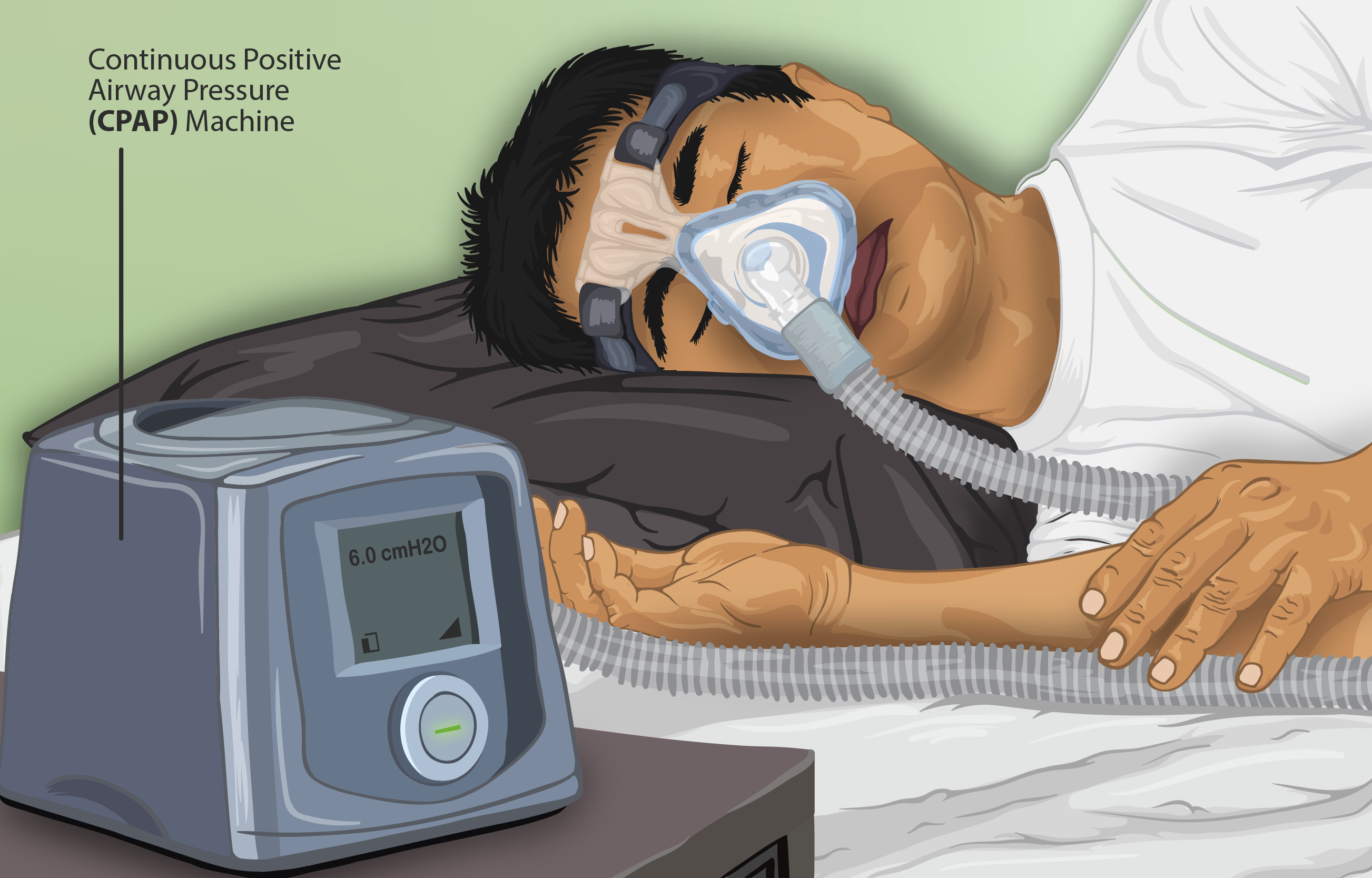 This is a depiction of a Sleep Apnea patient using a Continuous Positive Airway Pressure (CPAP) machine while sleeping.